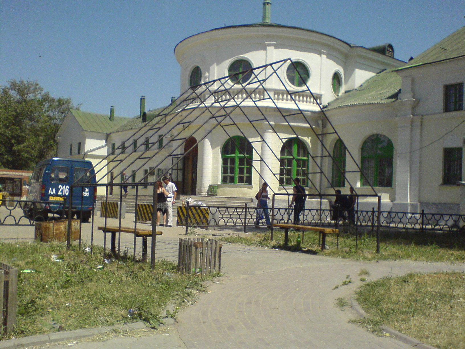 Frolovo city. Railway- and bus-station.